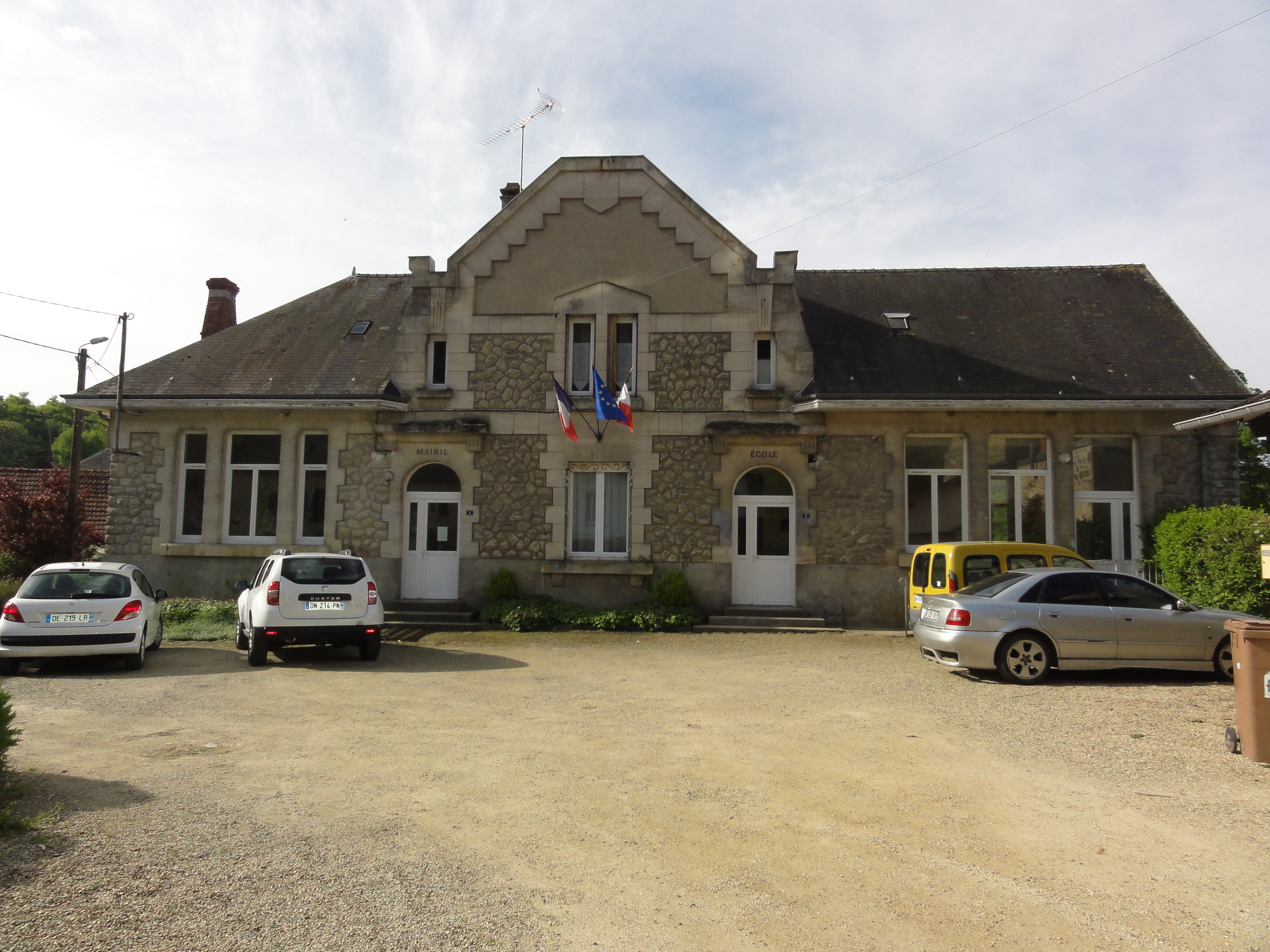 Chérêt (Aisne) mairie-école